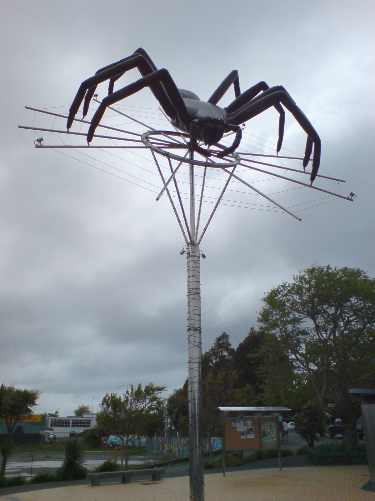 The Avondale spider, a local icon of the Avondale suburb in Auckland City, New Zealand. The spider is a local variety of large (but harmless to humans) huntsman spider which is rarely found anywhere else.